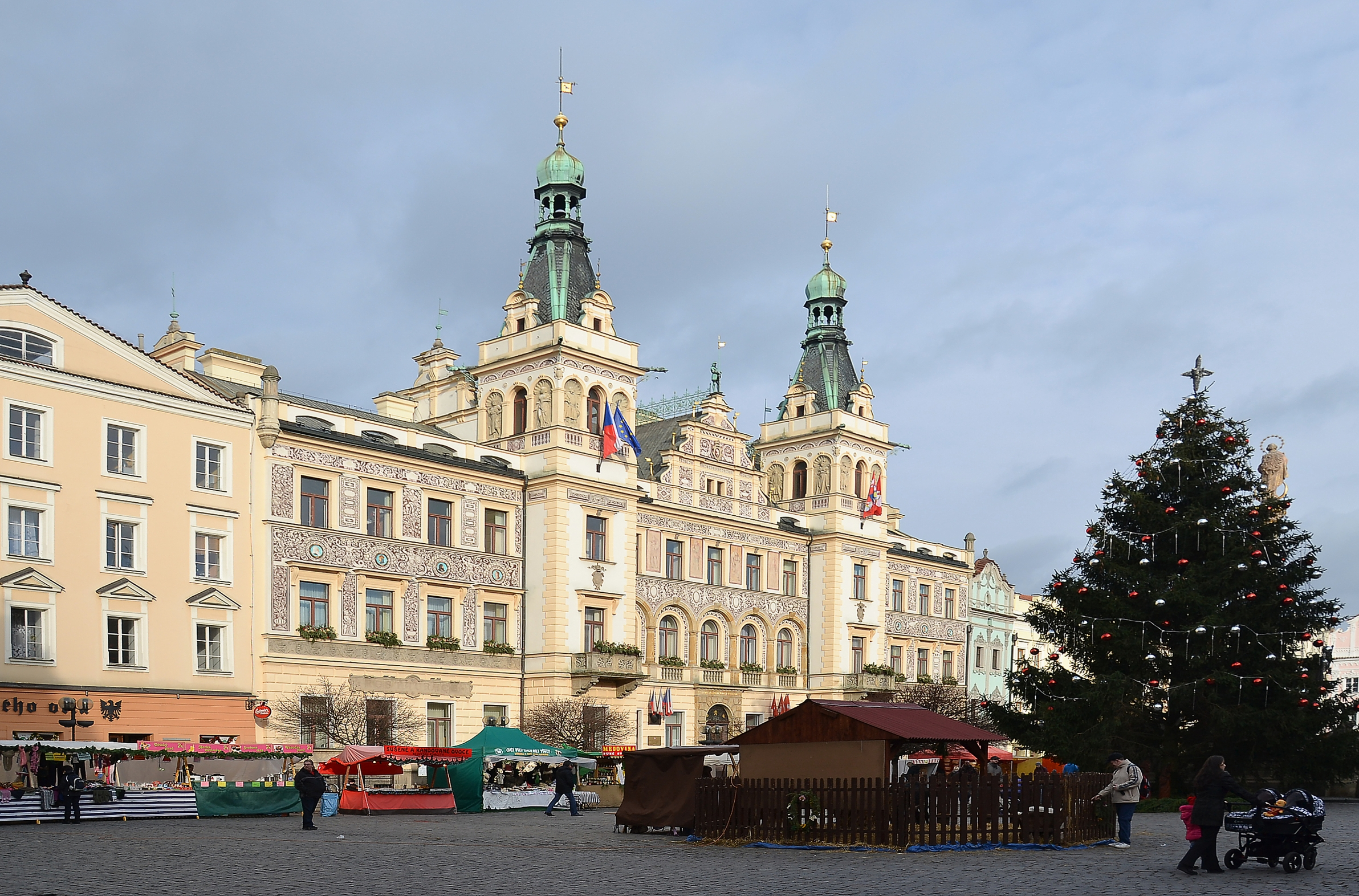 Town hall in Pardubice (Pardubitz), Czech Republic